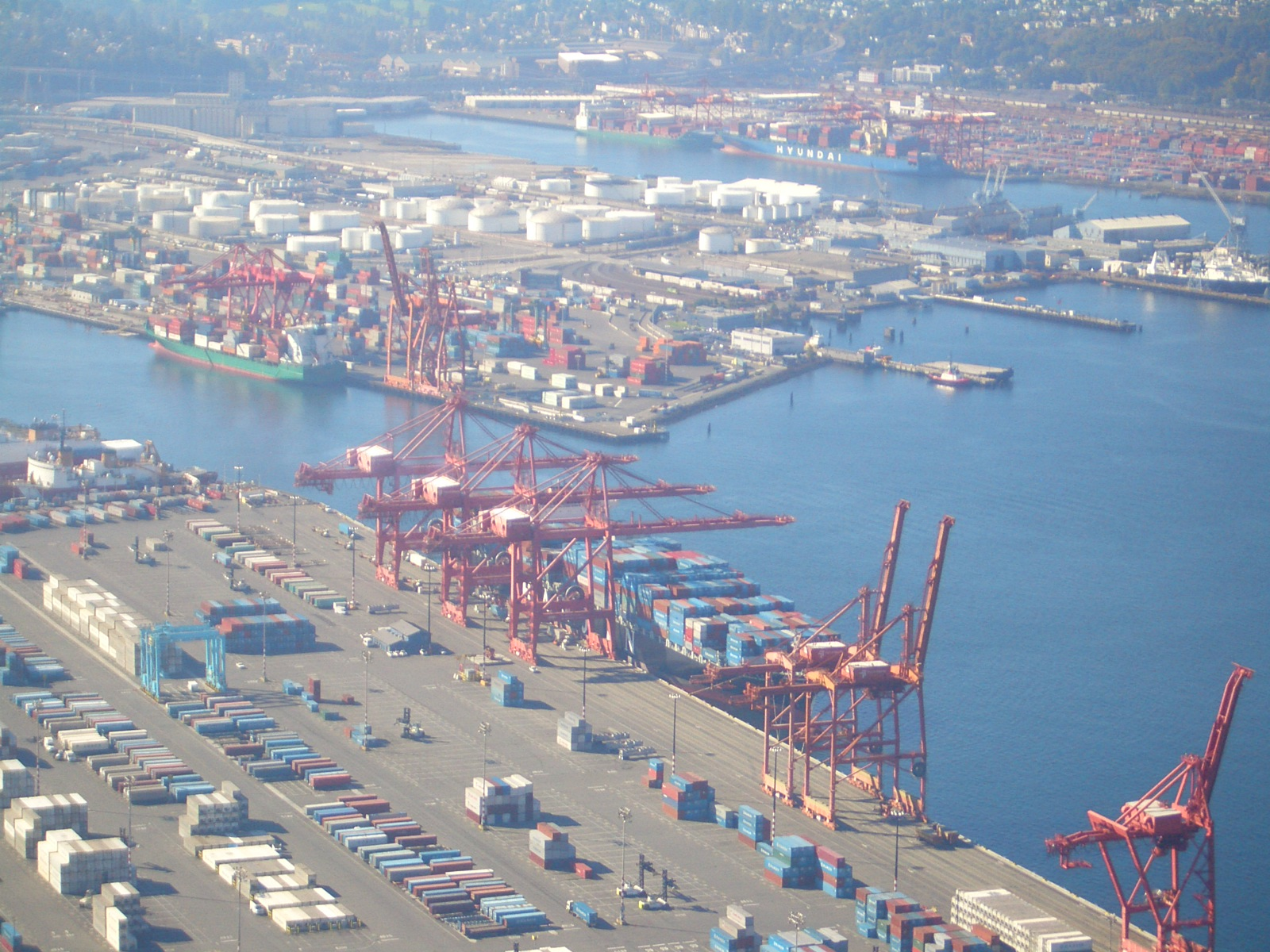 A view of Seattle Container Terminal, looking south-west from the observation deck of Columbia Center.